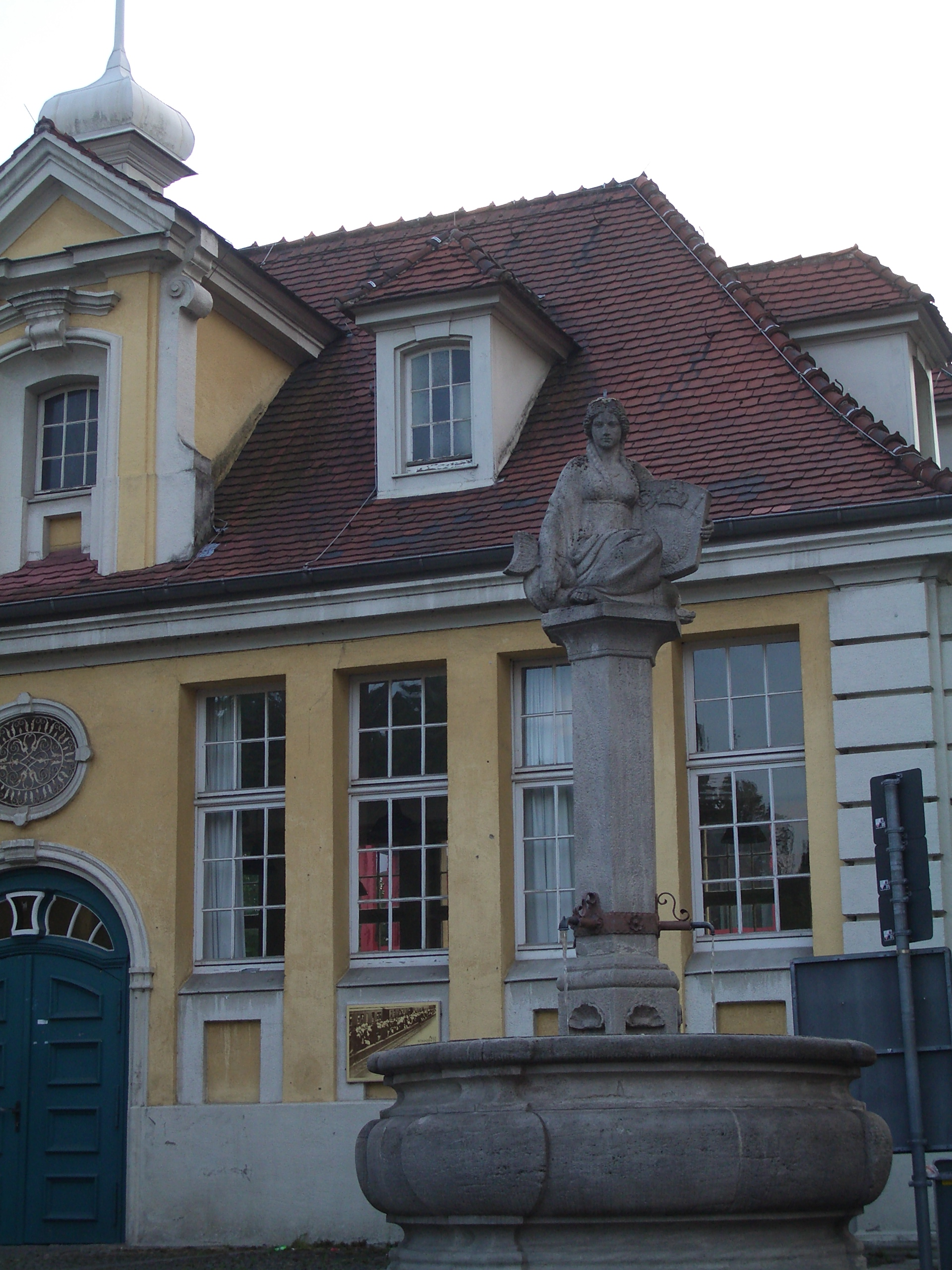 Fountain in town of Herford, District of Herford, North Rhine-Westphalia, Germany.